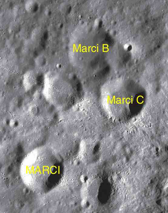 Part of the chart LAC-51 used for the presentation